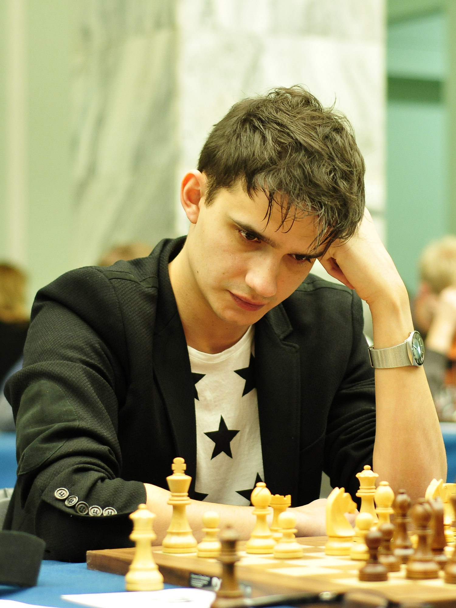 IM Krystian Kuźmicz, European Rapid Chess Championship, Warsaw 2013.